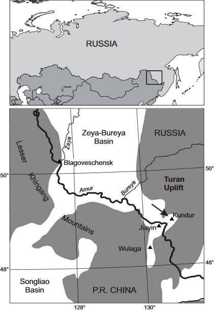 Map of the Amur−Heilongjiang region in the Far Eastern of Russia with indication of four hadrosaurid bonebeds (triangles) and indication of Olorotitan arharensis locality (arrow) at Kundur.